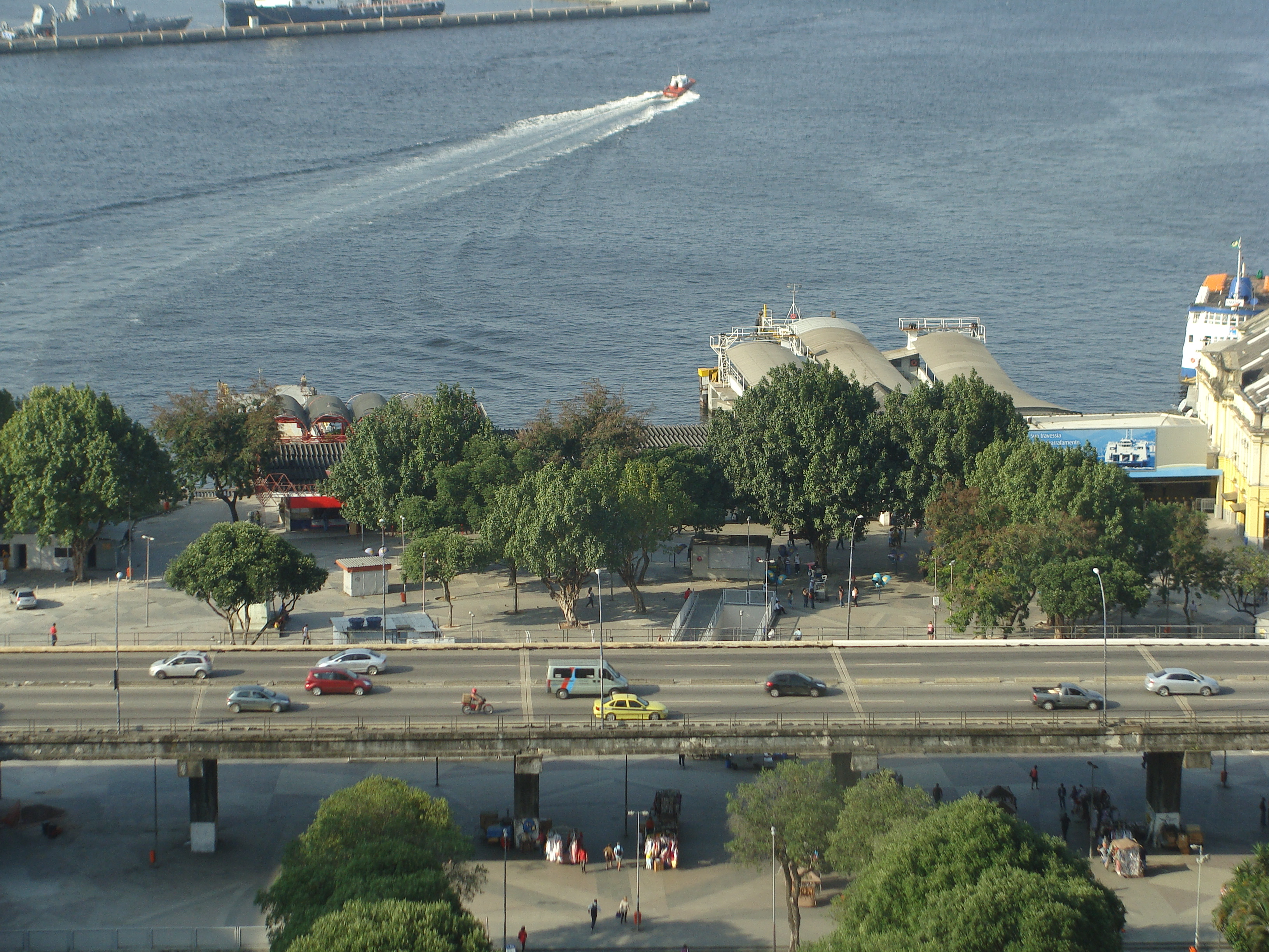 Partial view of the viaduct of Praça XV de Novembro